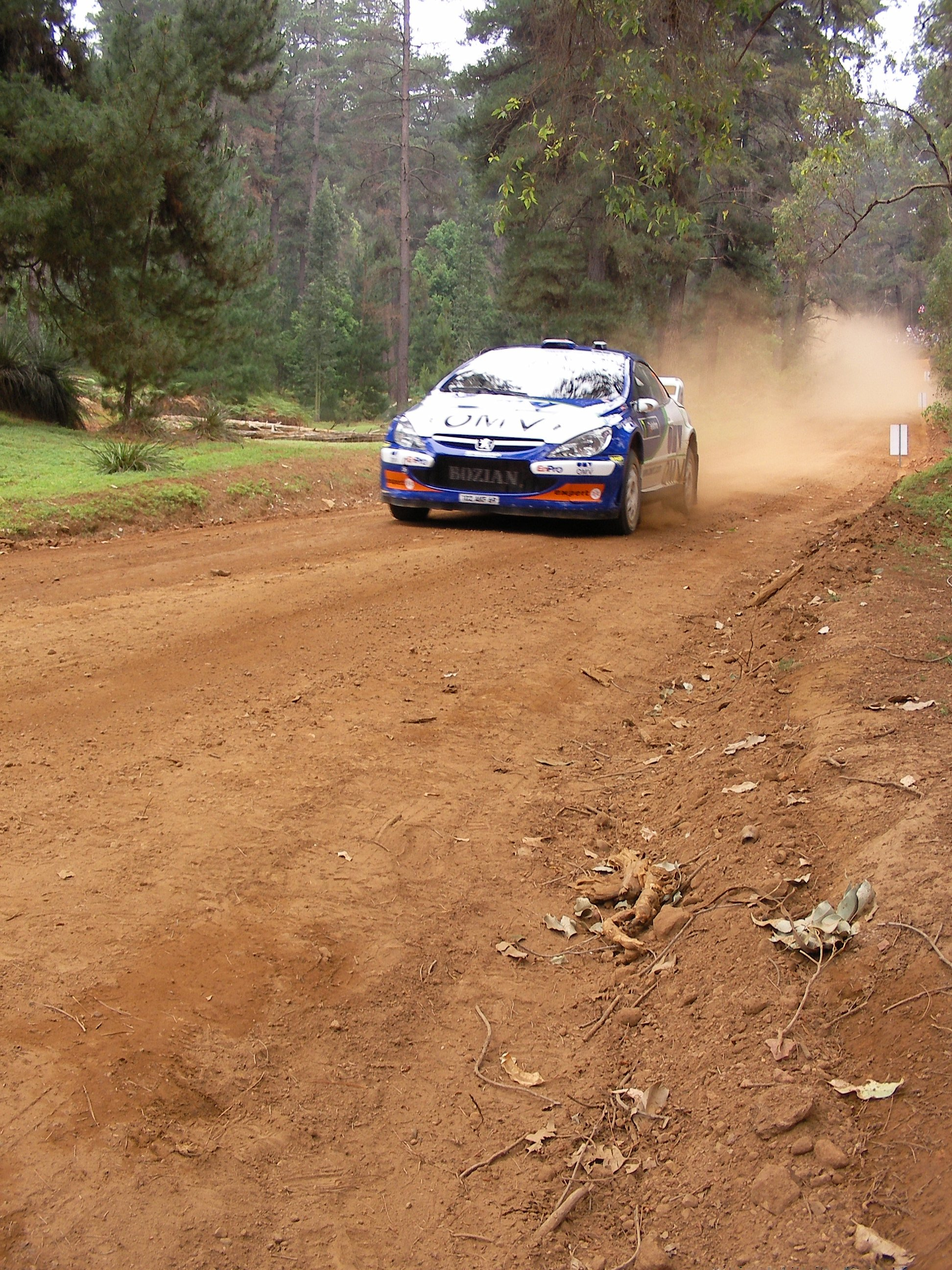 Manfred Stohl: OMV World Rally Team Peugeot 307: Leg 3 Telstra Rally Australia 2006